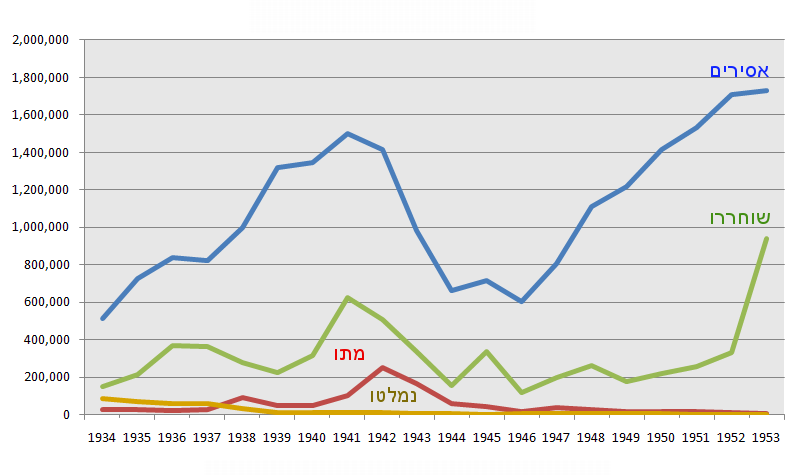 Gulag prisoner statistics from 1934-1954